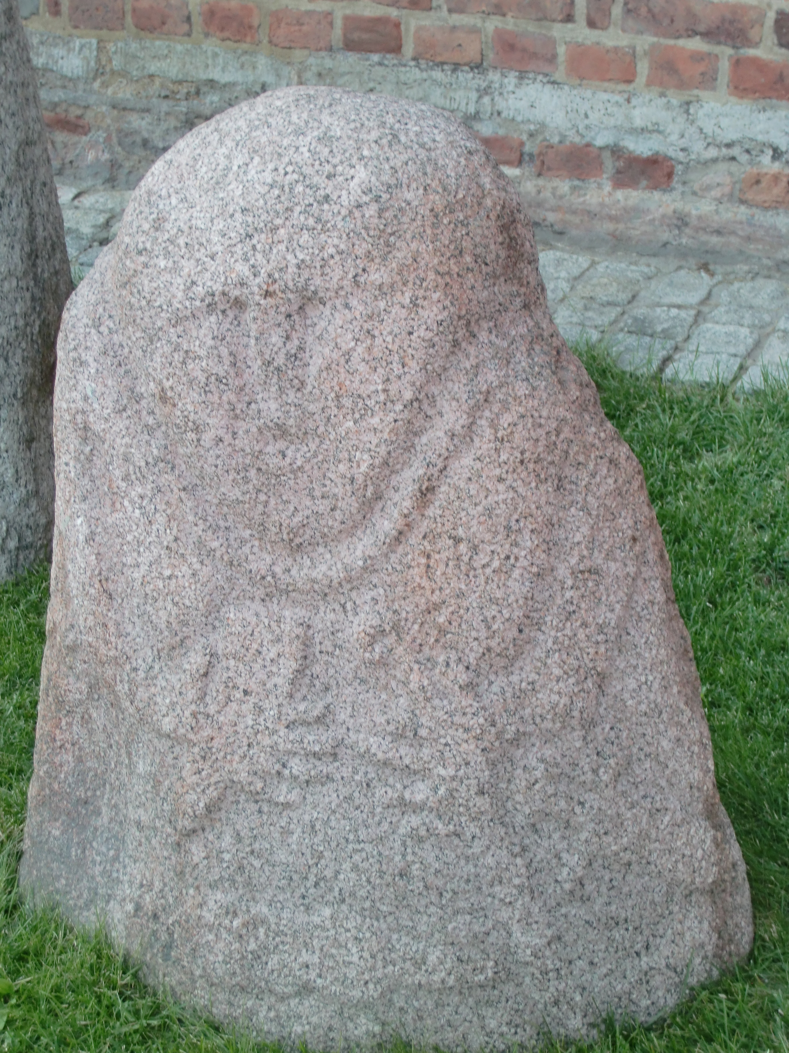 Prussian Hag - possibly first millennia CE Old Prussian carving